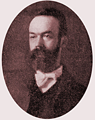 George Herron, American Christian socialist writer